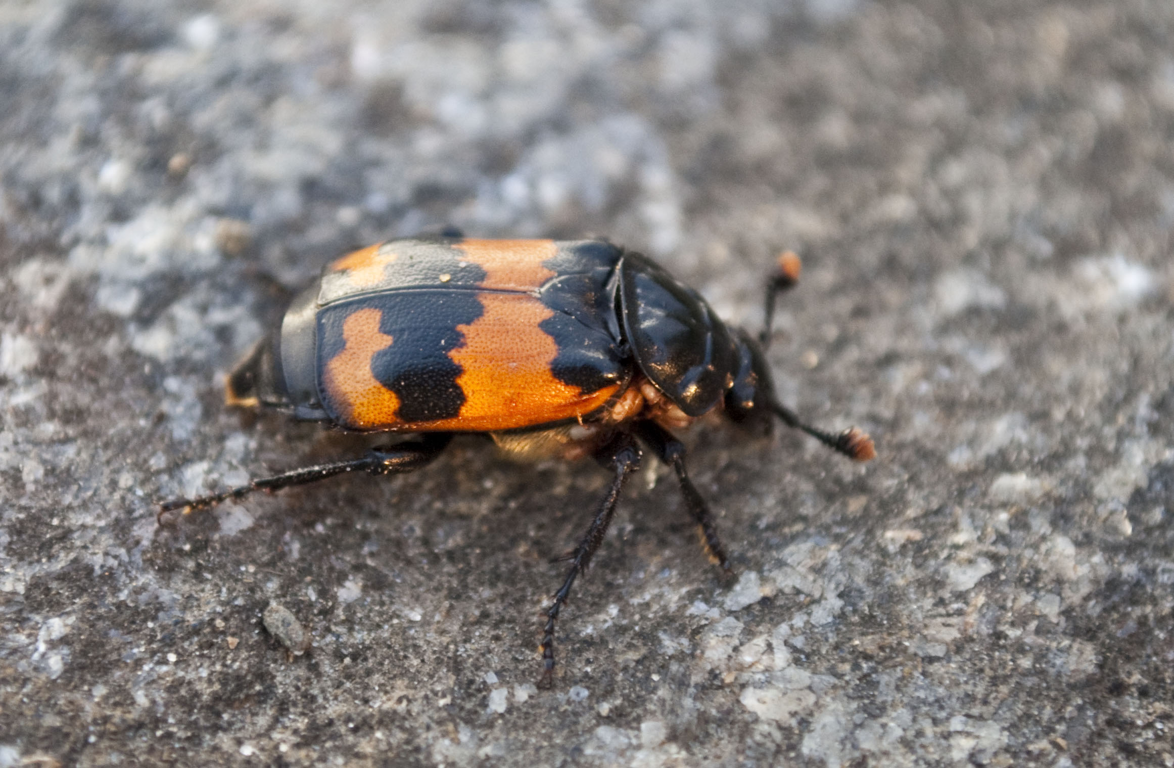 Beetle (Necrophorus investigator) found at Senja in the North of Norway.